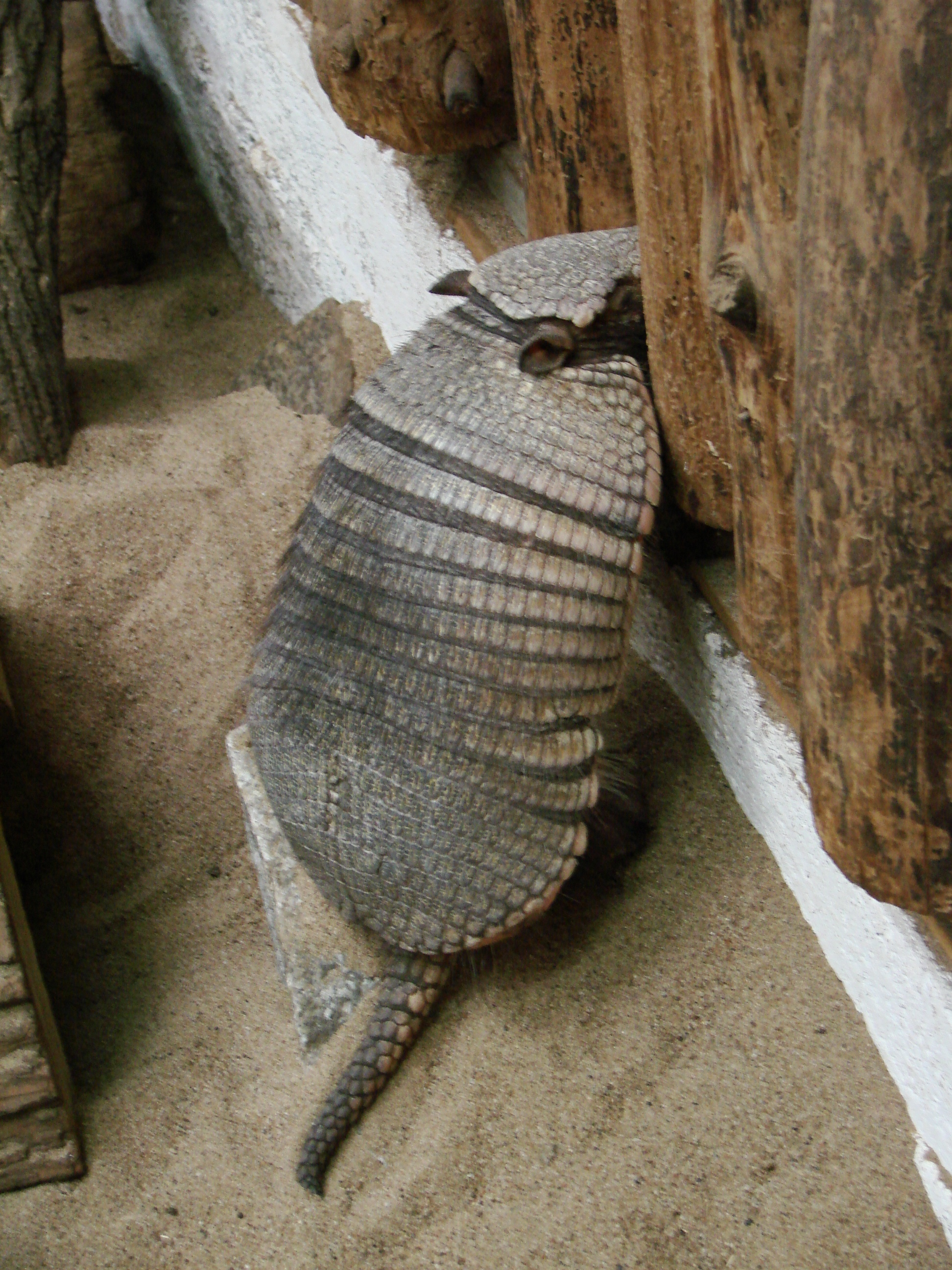 Picture taken in the zoo of Wrocław (Poland): Chaetophractus villosus (Desmarest, 1804)